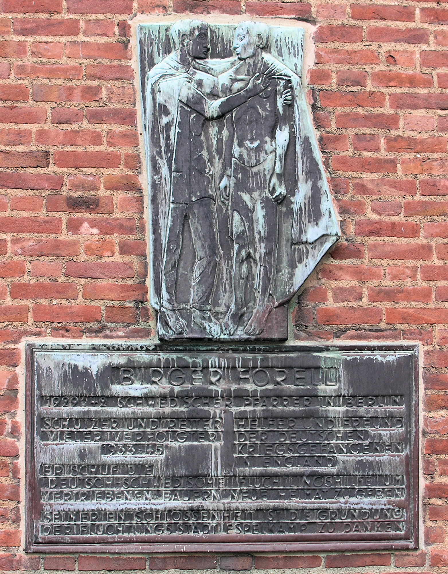 Memorial plaque, Birger Forell, Landhausstr 26, Berlin-Wilmersdorf, Germany Koordinate:52°29′15″N 13°19′45″E / 52.4875°N 13.32917°E